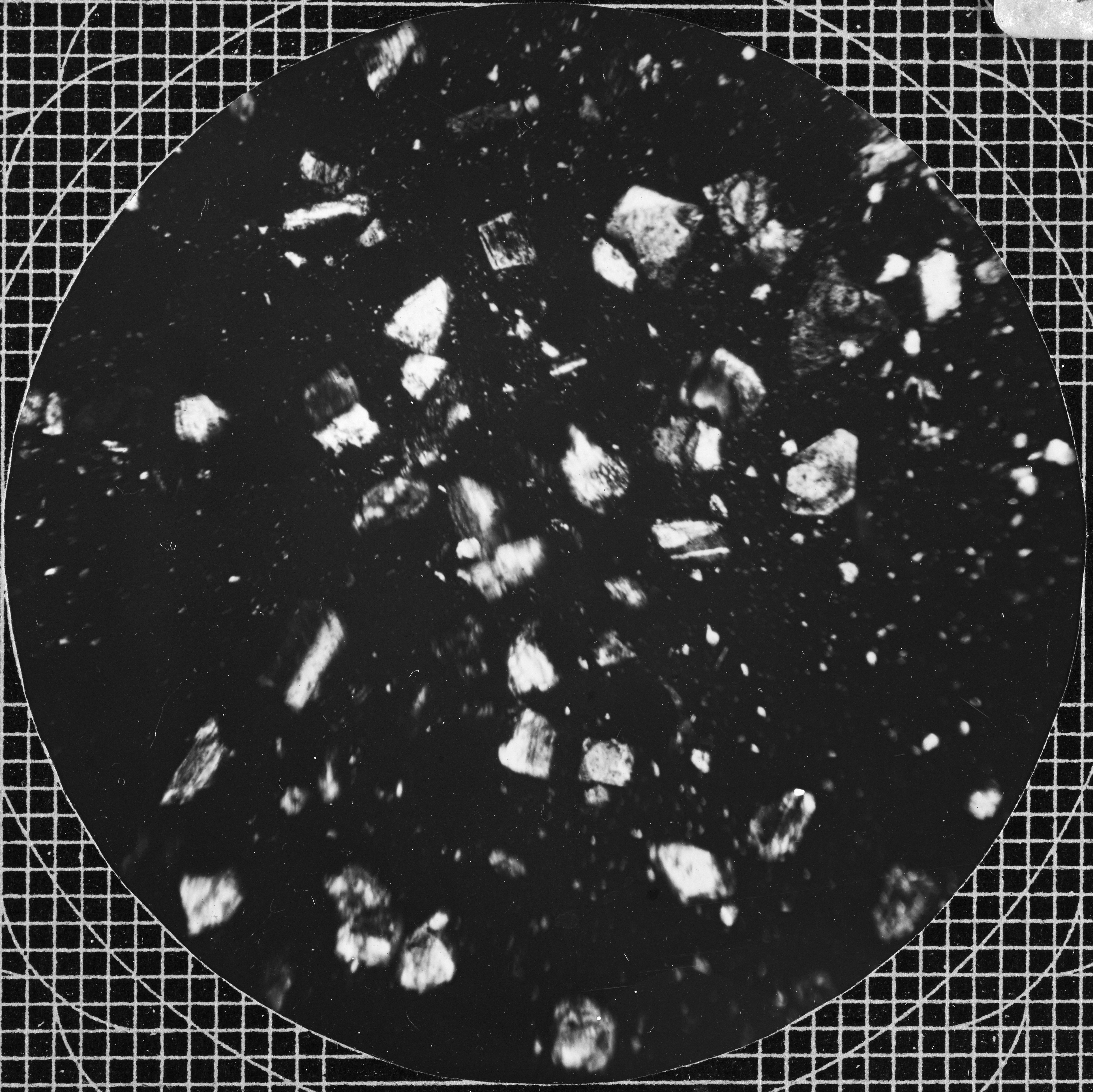 Microscope slide showing dust particles. Viewed in plane-polarized light.